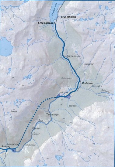 Borlaug tunnel map